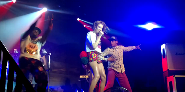 Another phone camera pic of Nicola Roberts at G-A-Y. Once again quality is bad so I don't think its going to be used anywhere. Can't remember what song this is either. Cropped out heads and stuff.